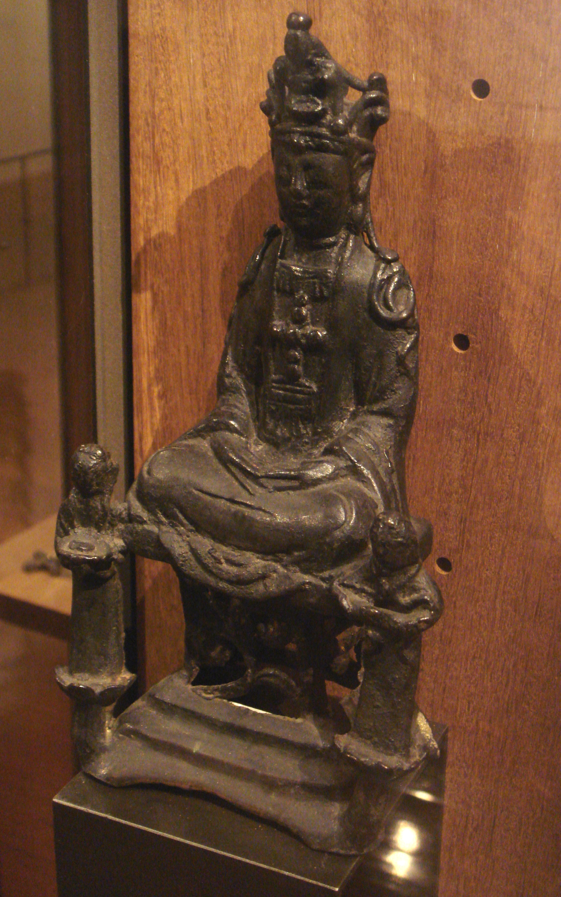 The_Virgin_Mary_disguised_as_Kannon (Japan). Photographed by me at the Paris Foreign Missions Society in 2008.